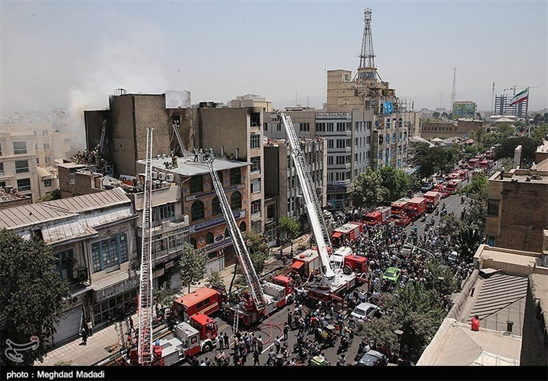 Fire on Building at Jomhouri Street, Tehran 2014